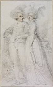 Sir James Hamlyn, 1st Baronet (1735-1811) and his wife Arabella Williams (1739-1797). Watercolour on paper circa 1789 by Richard Cosway (1742-1821), Victoria & Albert Museum, London, Portrait Miniatures, room 90a, case 15, item E.11-2002. Purchased with funds from the RH Stephenson Bequest and the Donor Friends of the V&A.